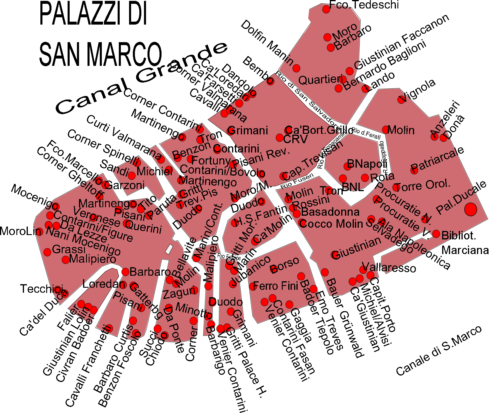 palaces of San Marco - Venice